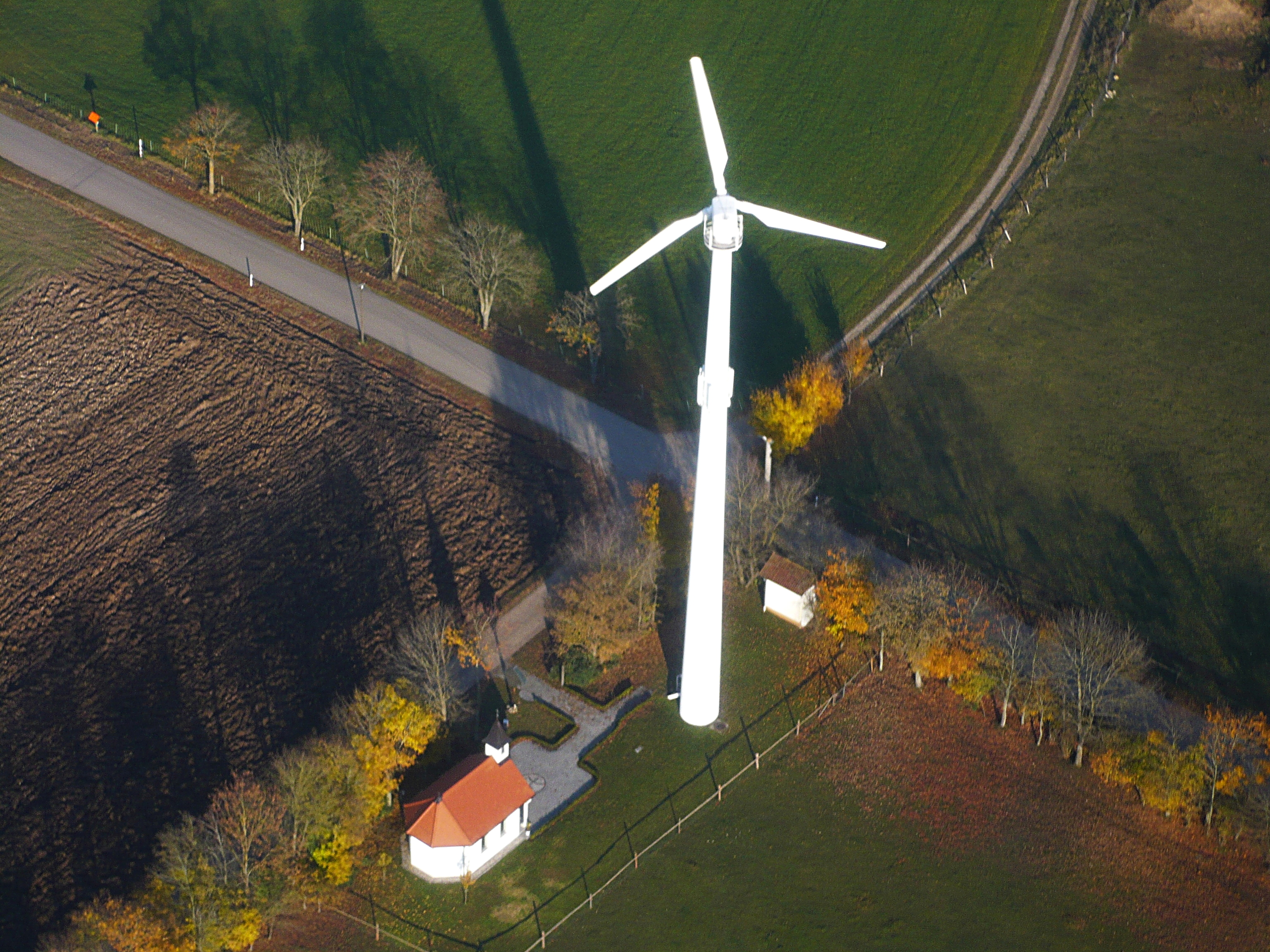 Aerial photograph of the wind turbine Kienberg